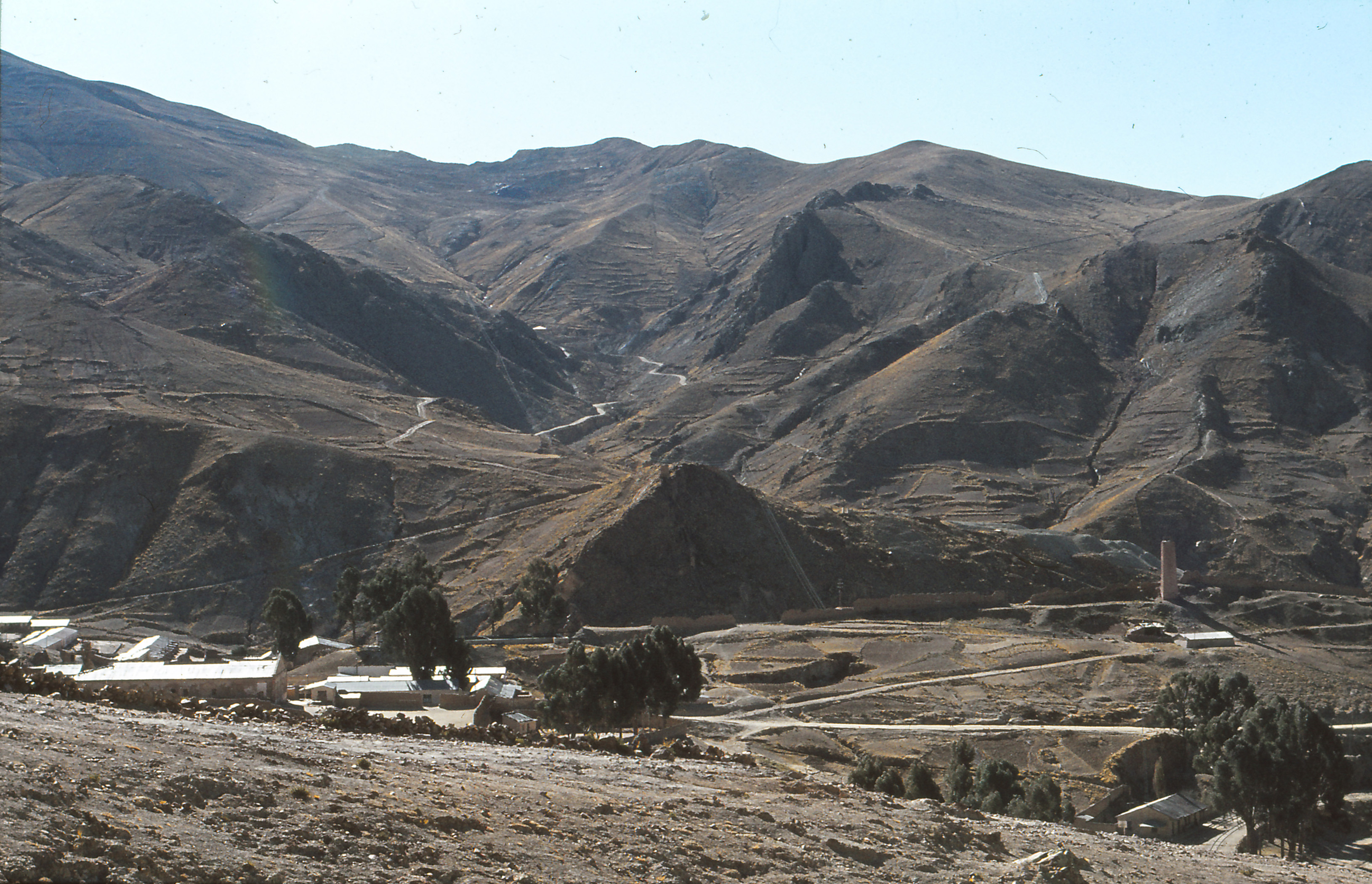 Uncia Landscape